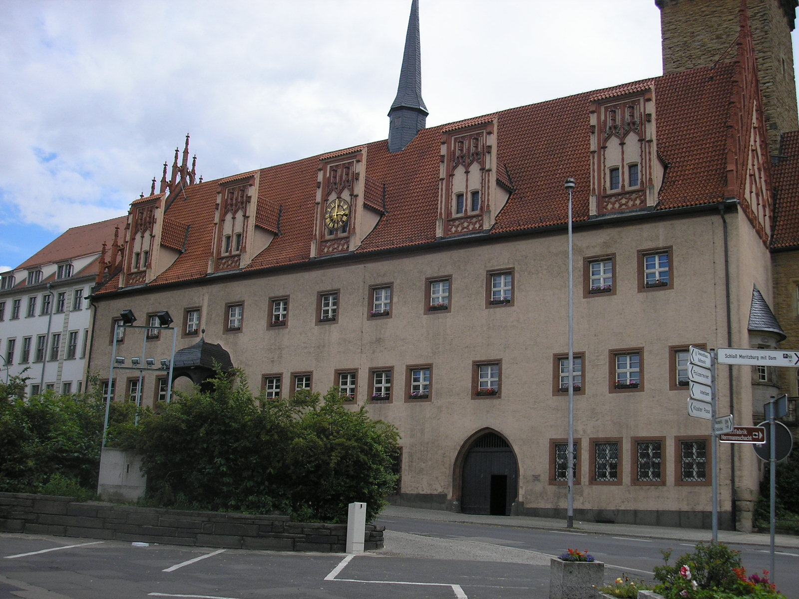 Old city hall in Zeitz